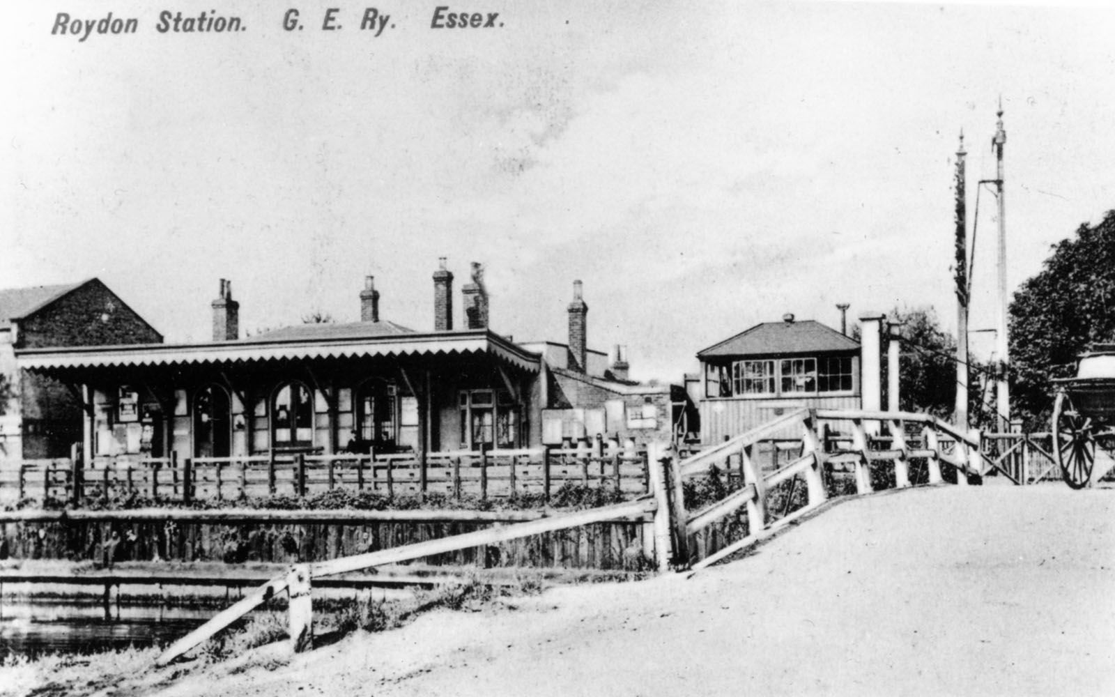 Historical photo of Roydon Station in Essex. Scanned form a postcard dating from around 1900.